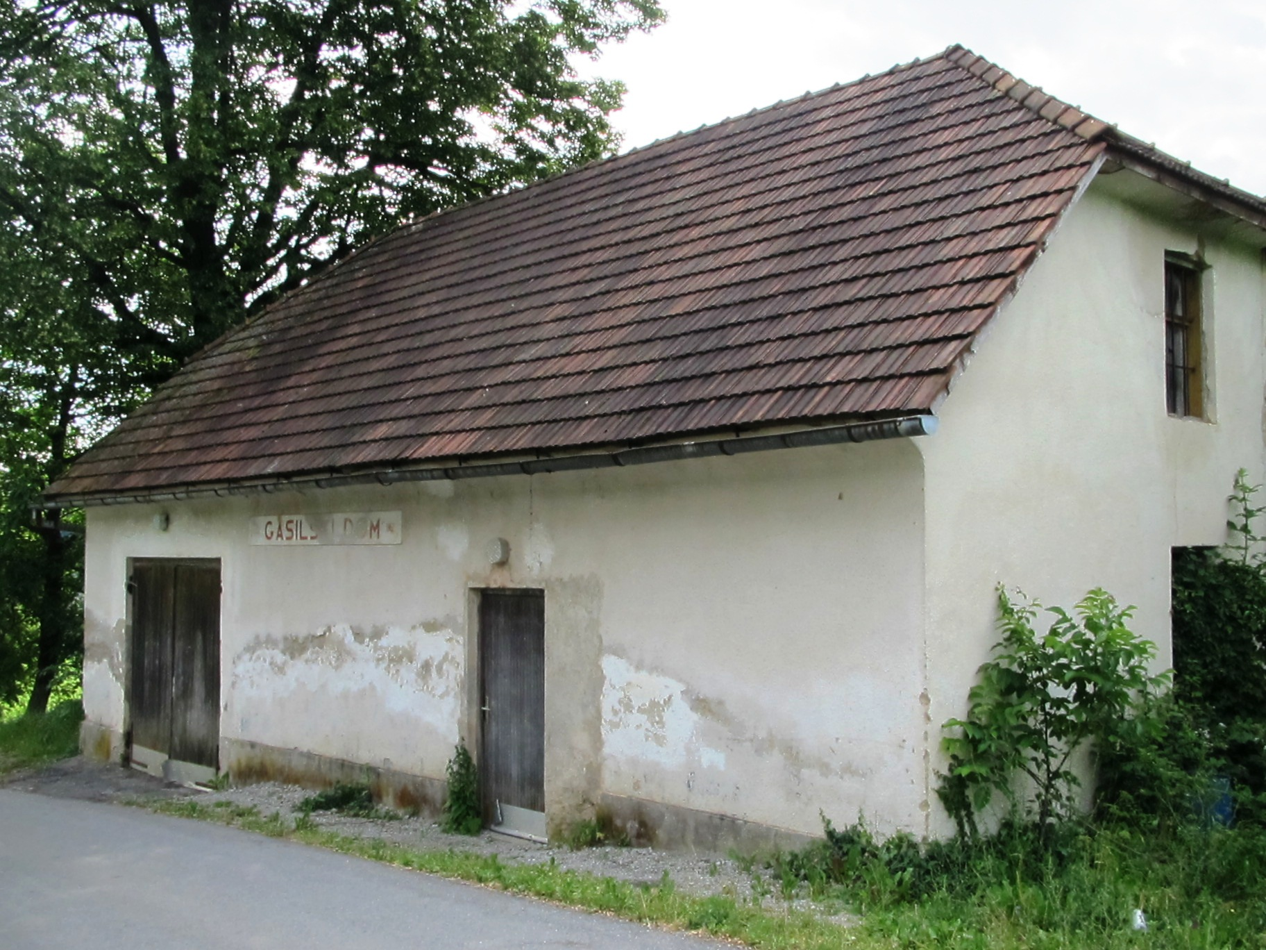 The former fire station (1932-1962) in Žažar, Municipality of Horjul, Slovenia.